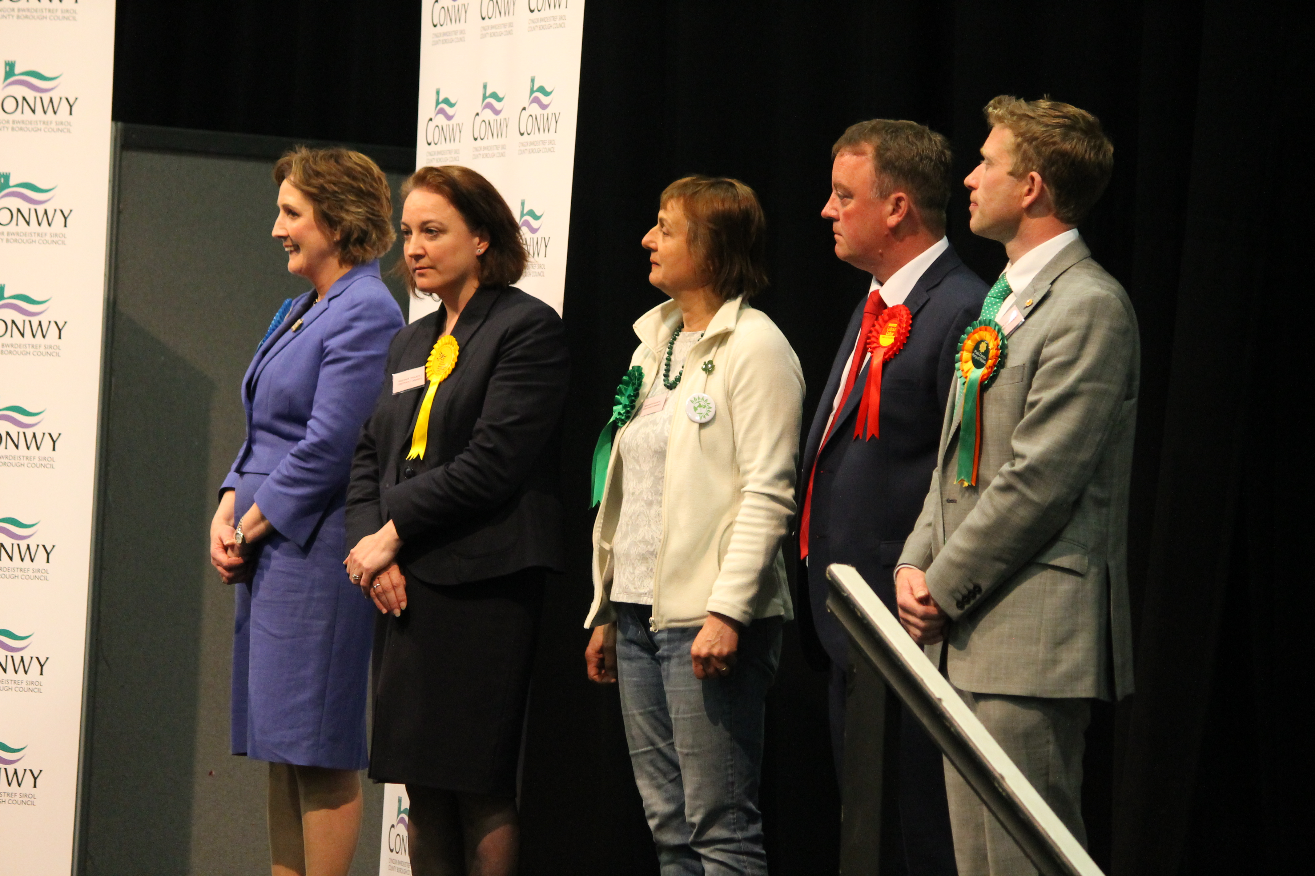 West Clwyd and Aberconwy Count for the National Assembly Election 5 May 2016.